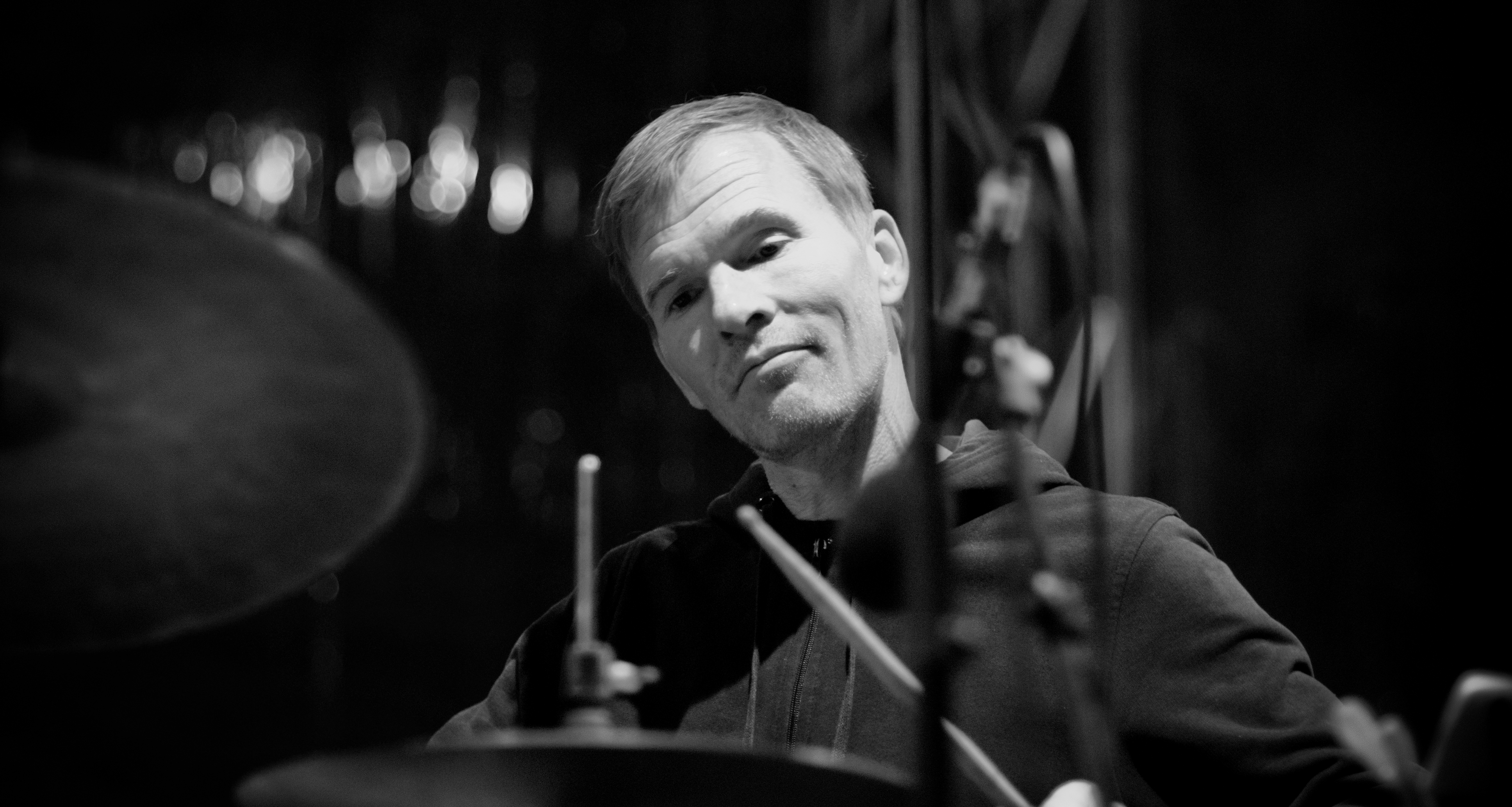 Roland Höppner live at Aachen September Special 2010